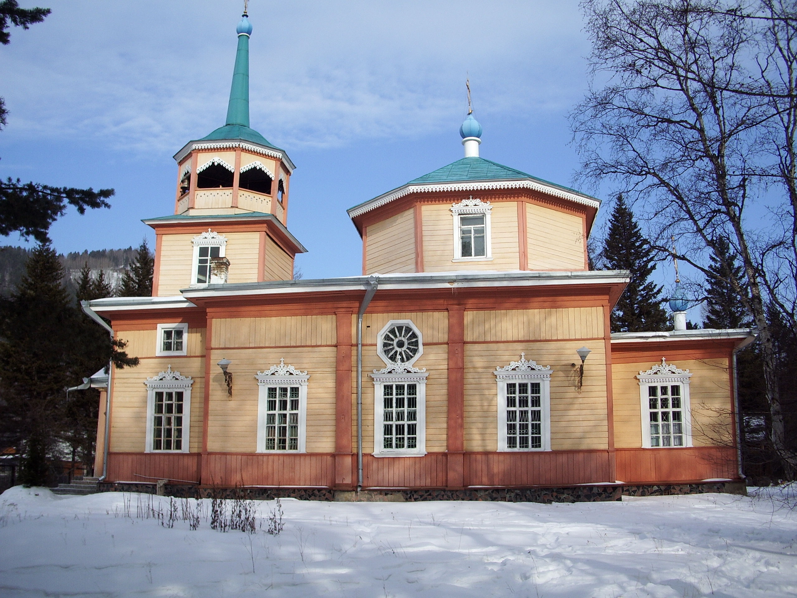 Church in Listvyanka, Baikal